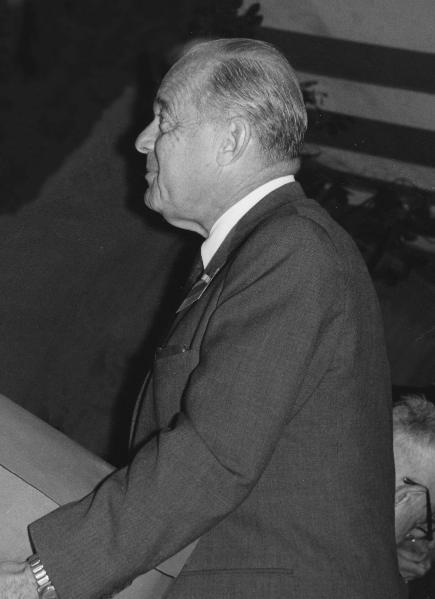 Paul Alfred Weiss (March 21, 1898 – September 8, 1989) Creator/Photographer: Fremont Davis Medium: Black and white photographic print Date: 1963 Persistent URL: Collection: Accession 90-105: Science Service Records, 1920s – 1970s - Science Service, now the Society for Science & the Public, was a news organization founded in 1921 to promote the dissemination of scientific and technical information. Although initially intended as a news service, Science Service produced an extensive array of news features, radio programs, motion pictures, phonograph records, and demonstration kits and it also engaged in various educational, translation, and research activities. Accession number: SIA2007-0396